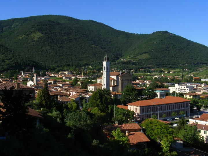 Center of Gussago